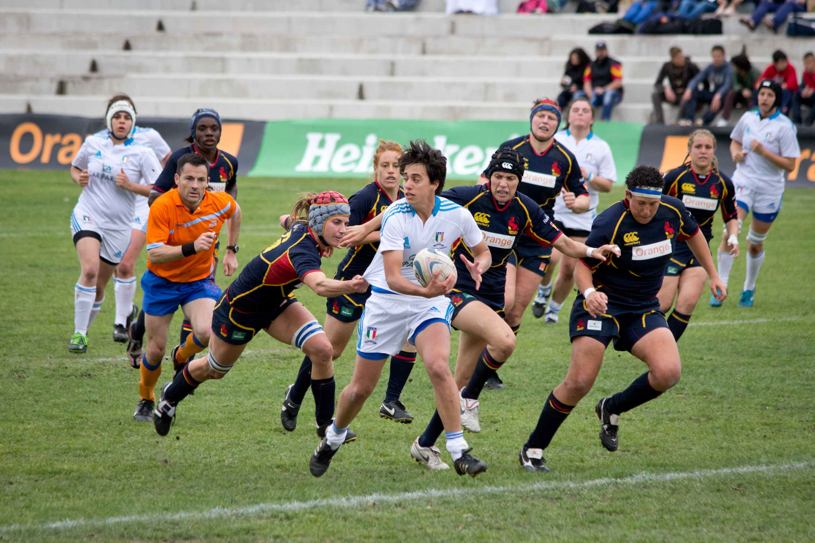 Game of the 2013 Women's European Qualification Tournament for WRWC France 2014 between Italy and Spain 7-38(b).